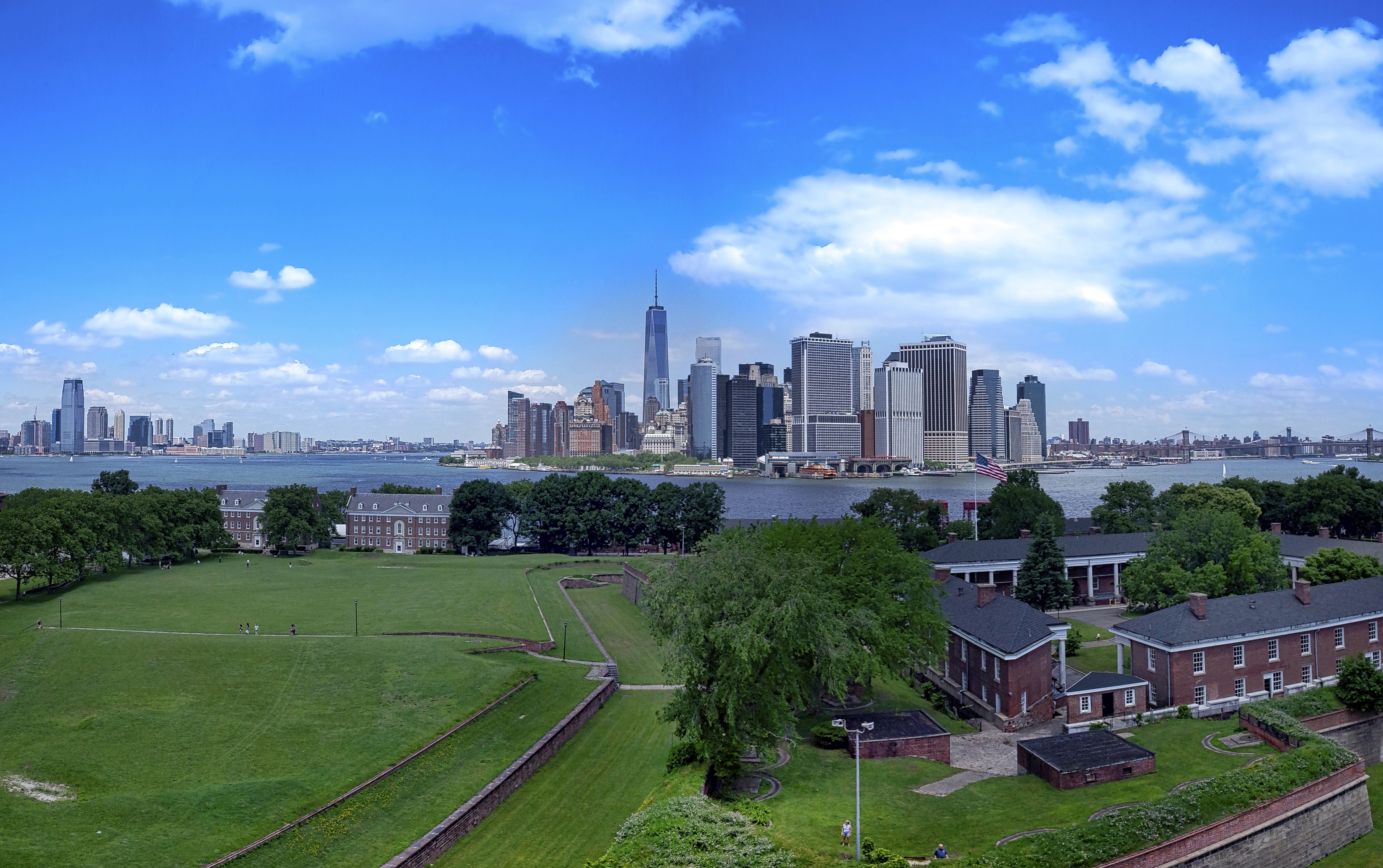 Fort Jay on Governors Island, with the Lower Manhattan skyline in the distance